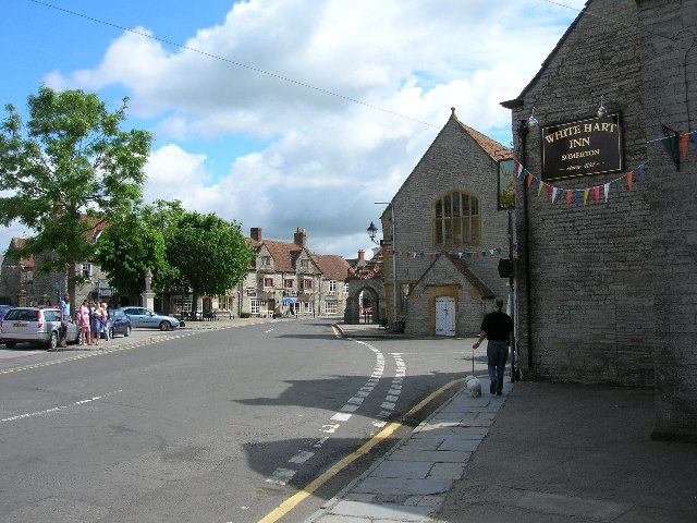 Somerton, Somerset. The 17th century market square with an octagonal market cross